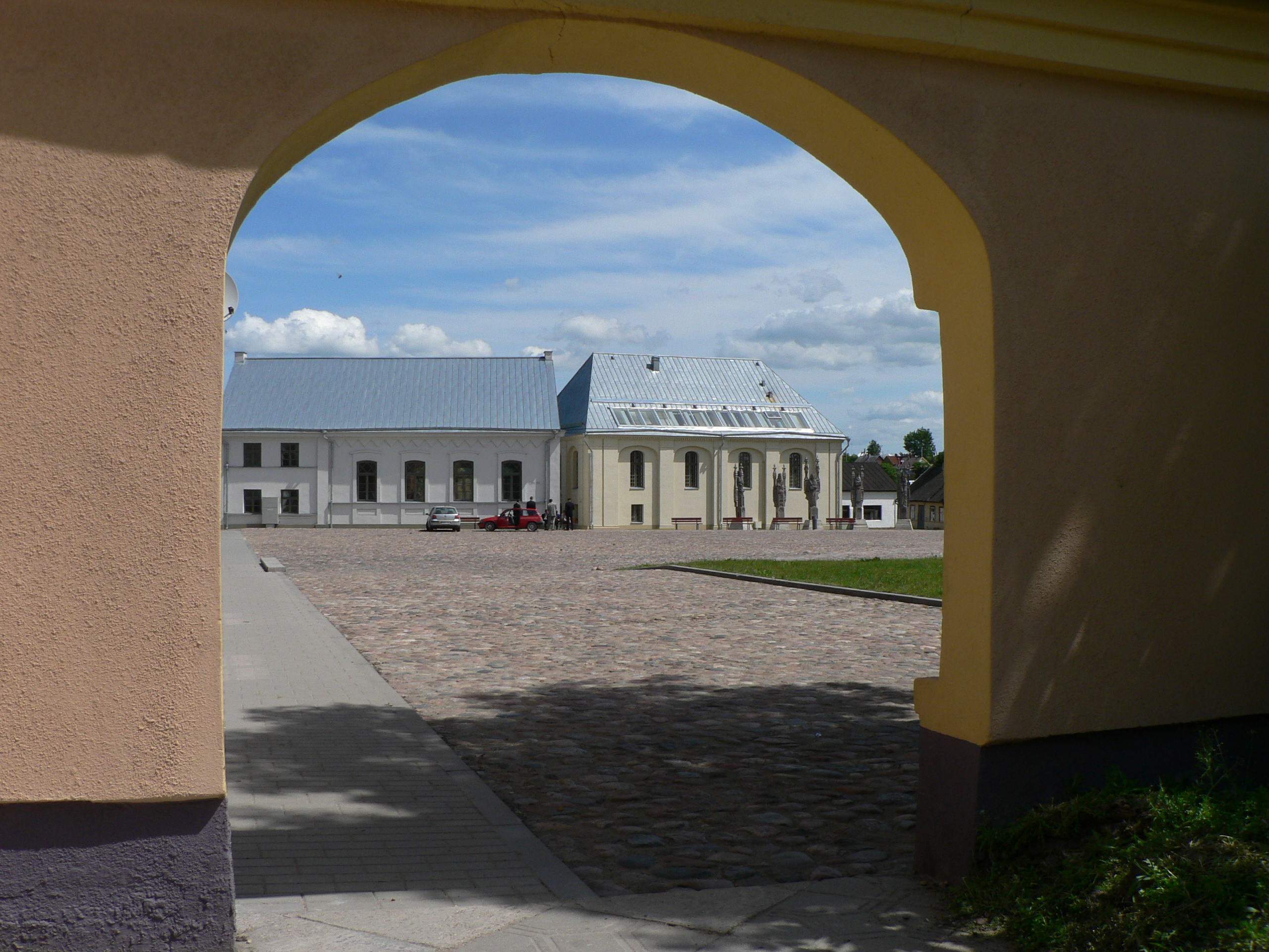 The two synagogues in Kėdainiai, Lithuania.